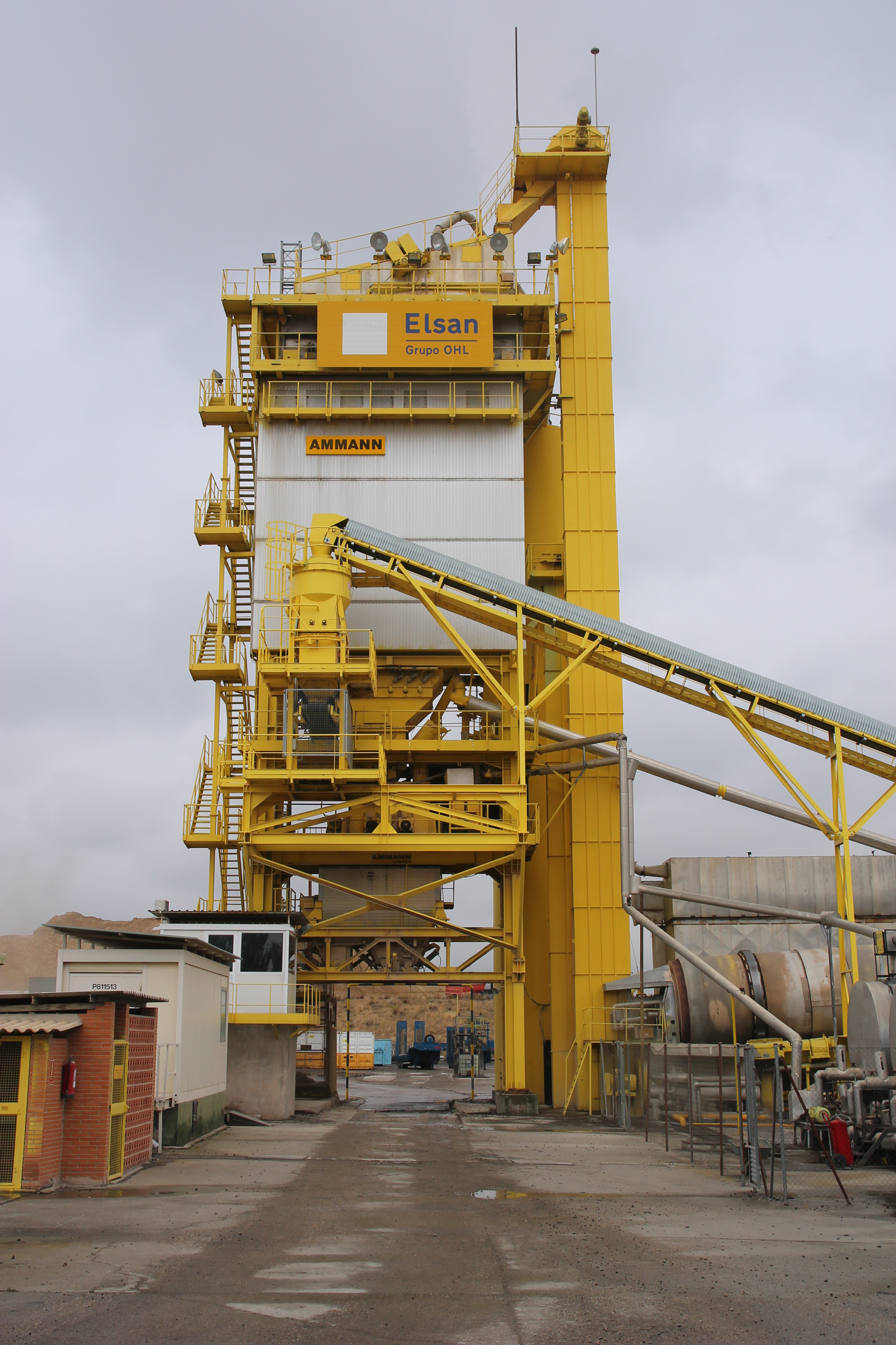 Asphalt plant in Arganda del Rey